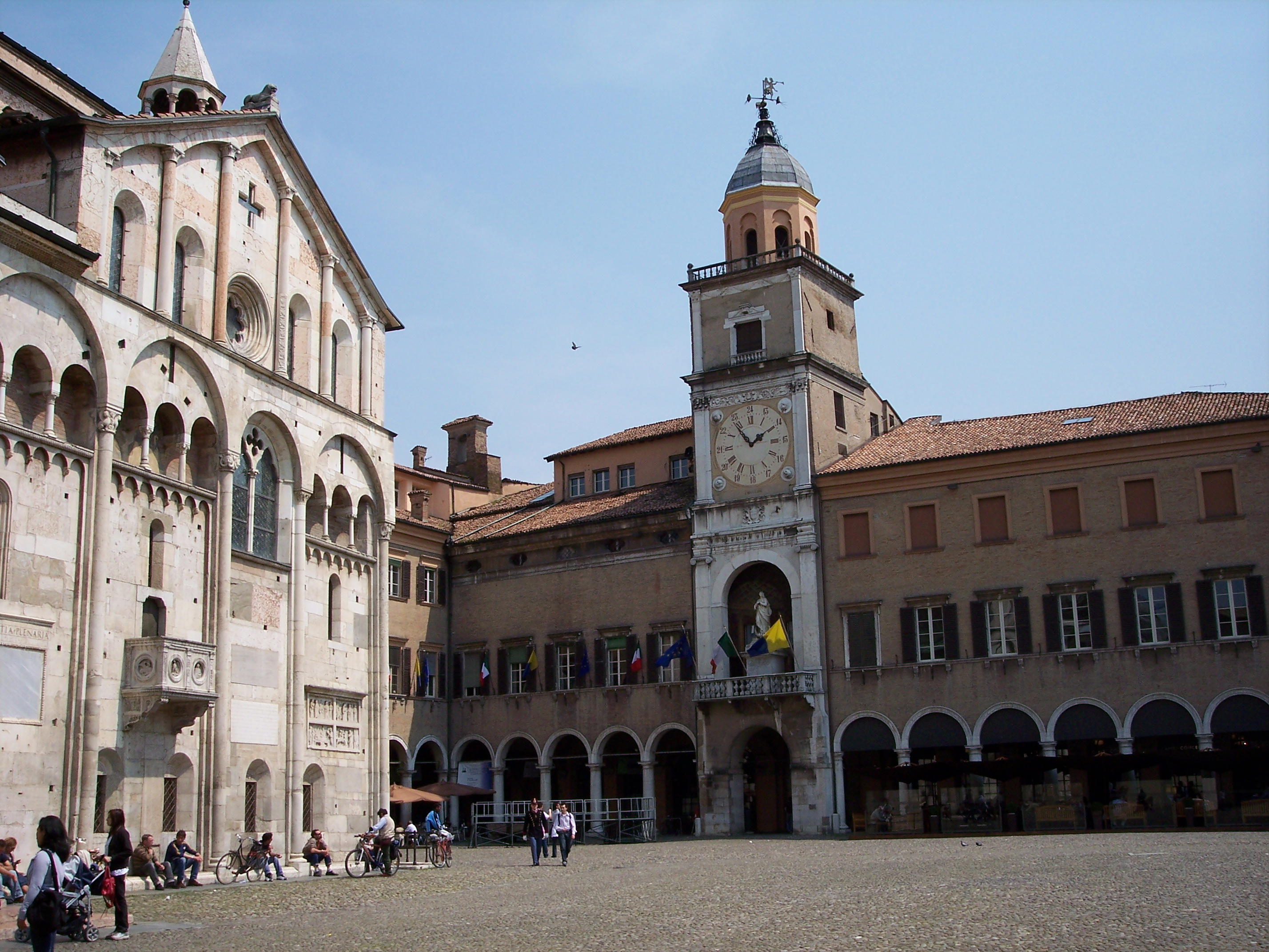 The Palazzo Comunale (right) and Duomo (left) in Modena, Italy.